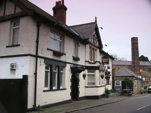 Bardon Mill Original description: The Bowes Hotel and Bardon Mill Pottery